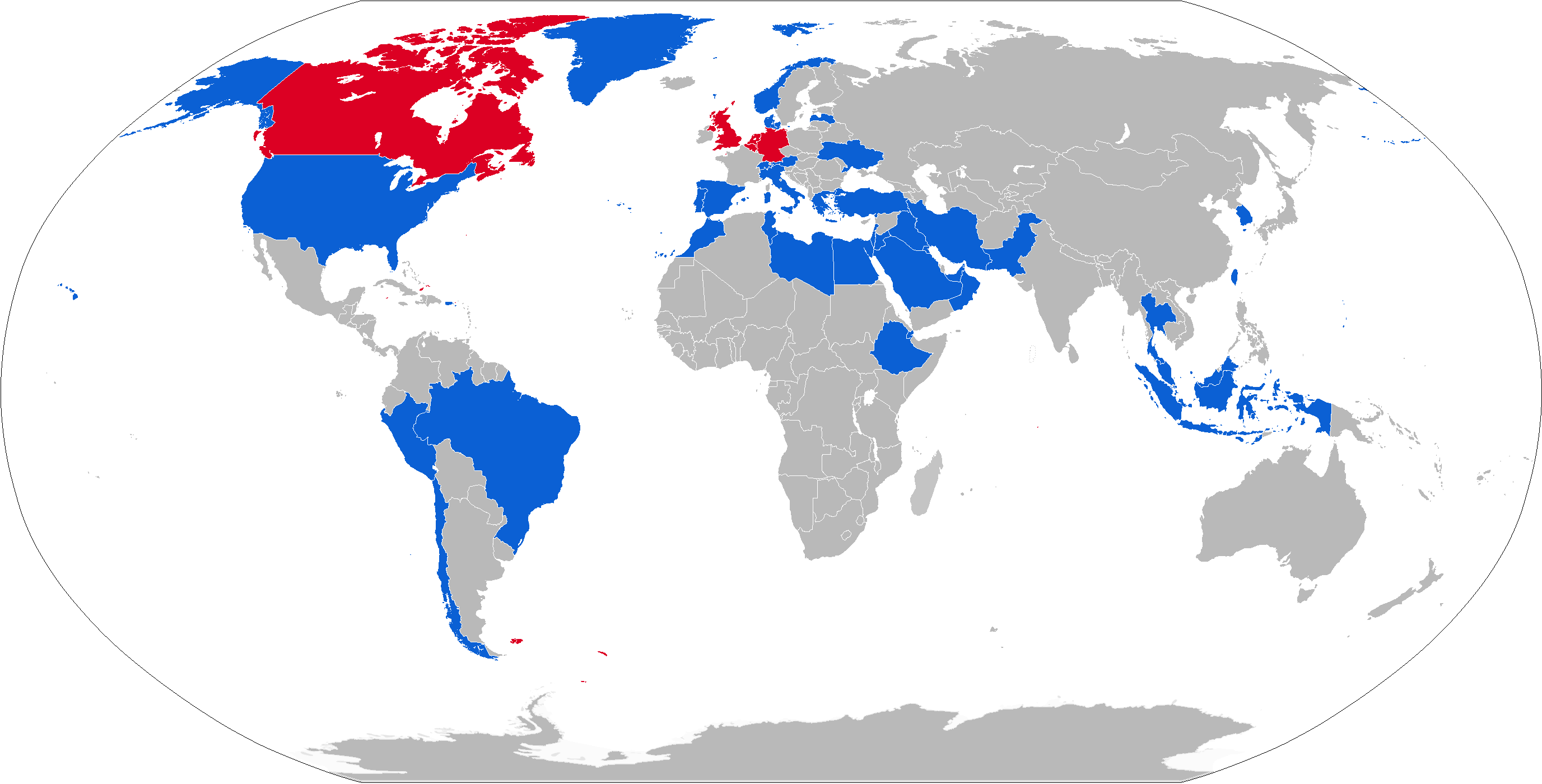 M109 Self Propelled Artillery users 2010